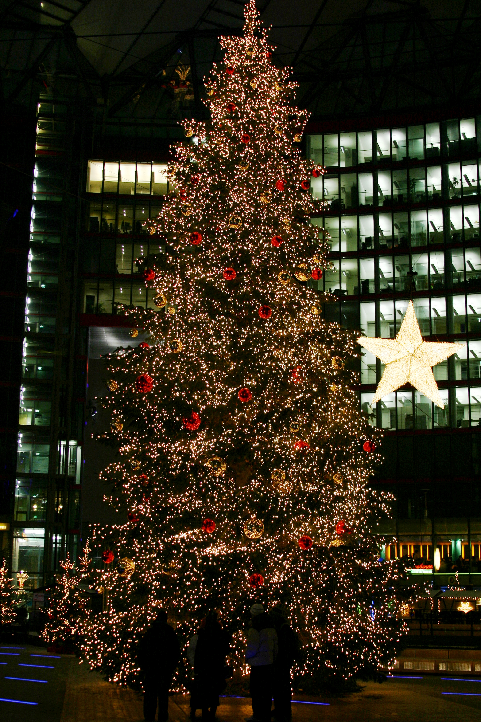 Christmas tree on the Potsdamer Platz (Sony Center) in Berlin, Germany. Picture taken on the 28.12.2005.